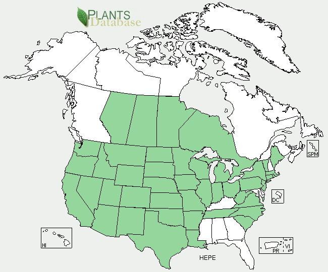 PLANTS Profile